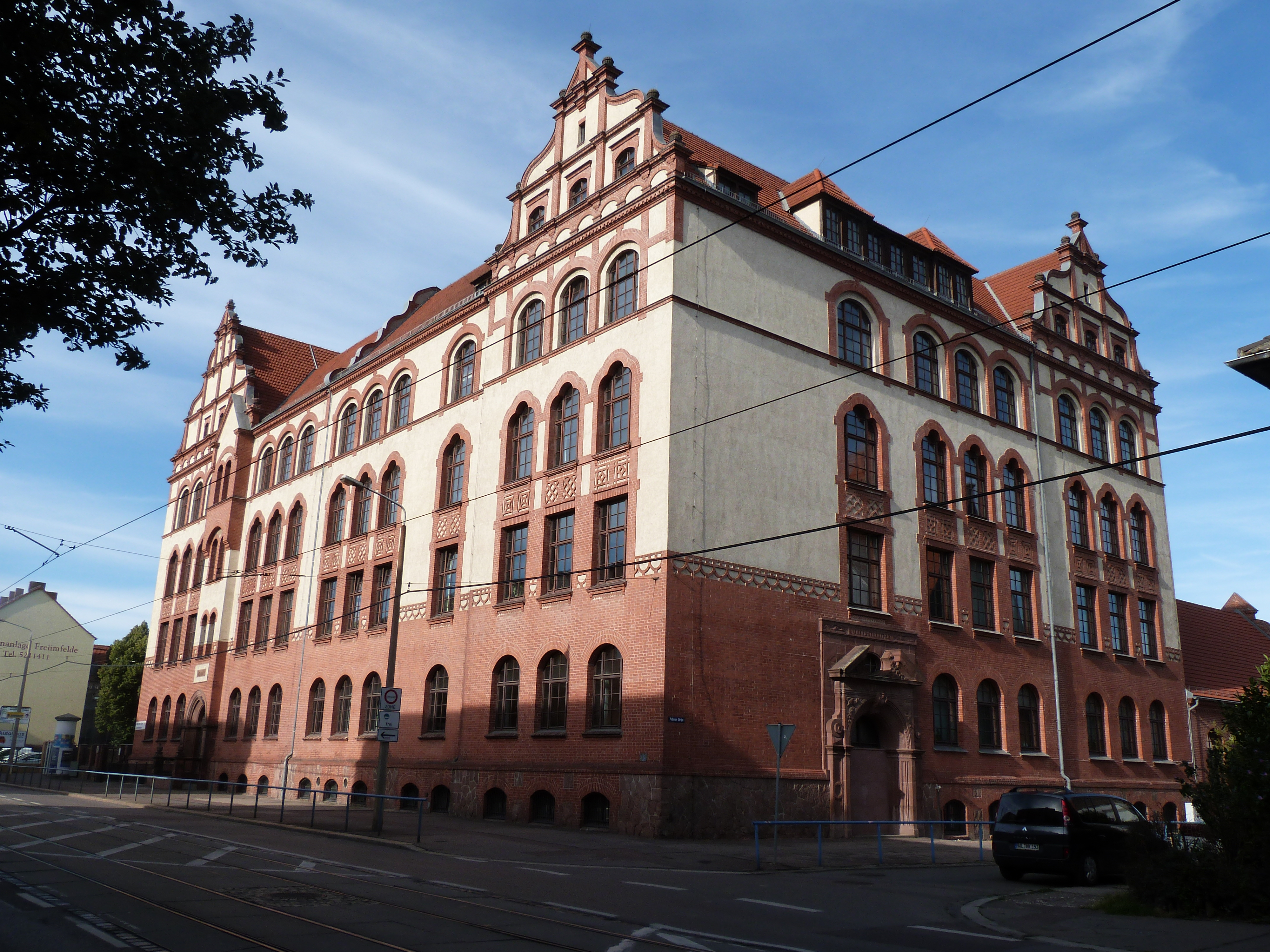 Comenius school (special school), built in 1901, Freiimfelder Strasse, Halle (Saale)